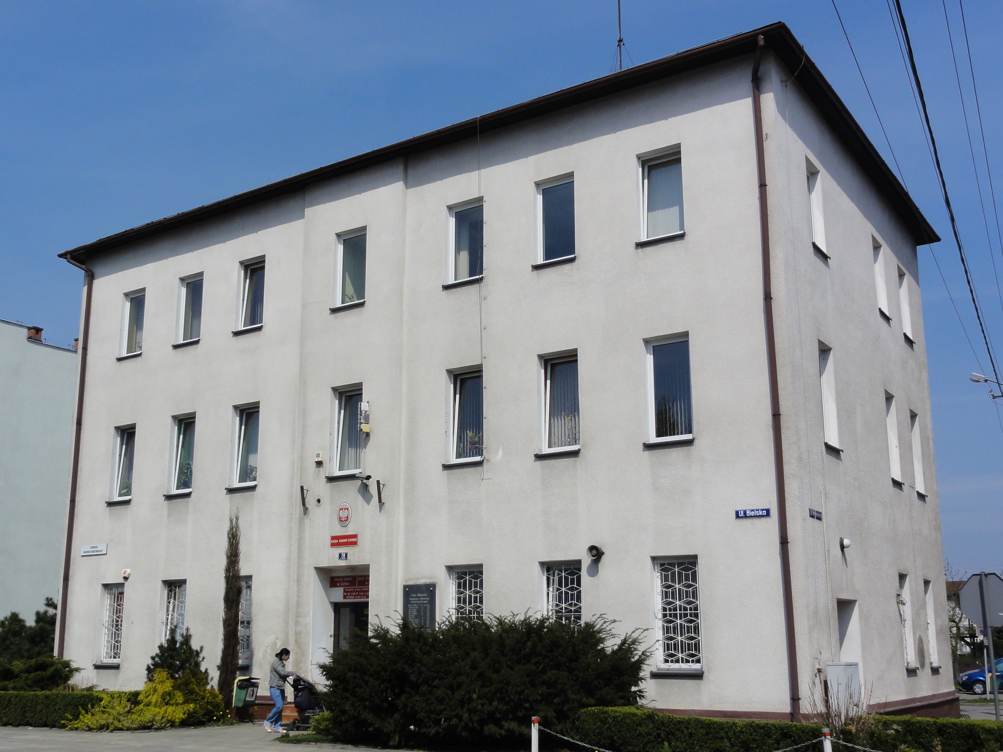 Municipal office in Chybie